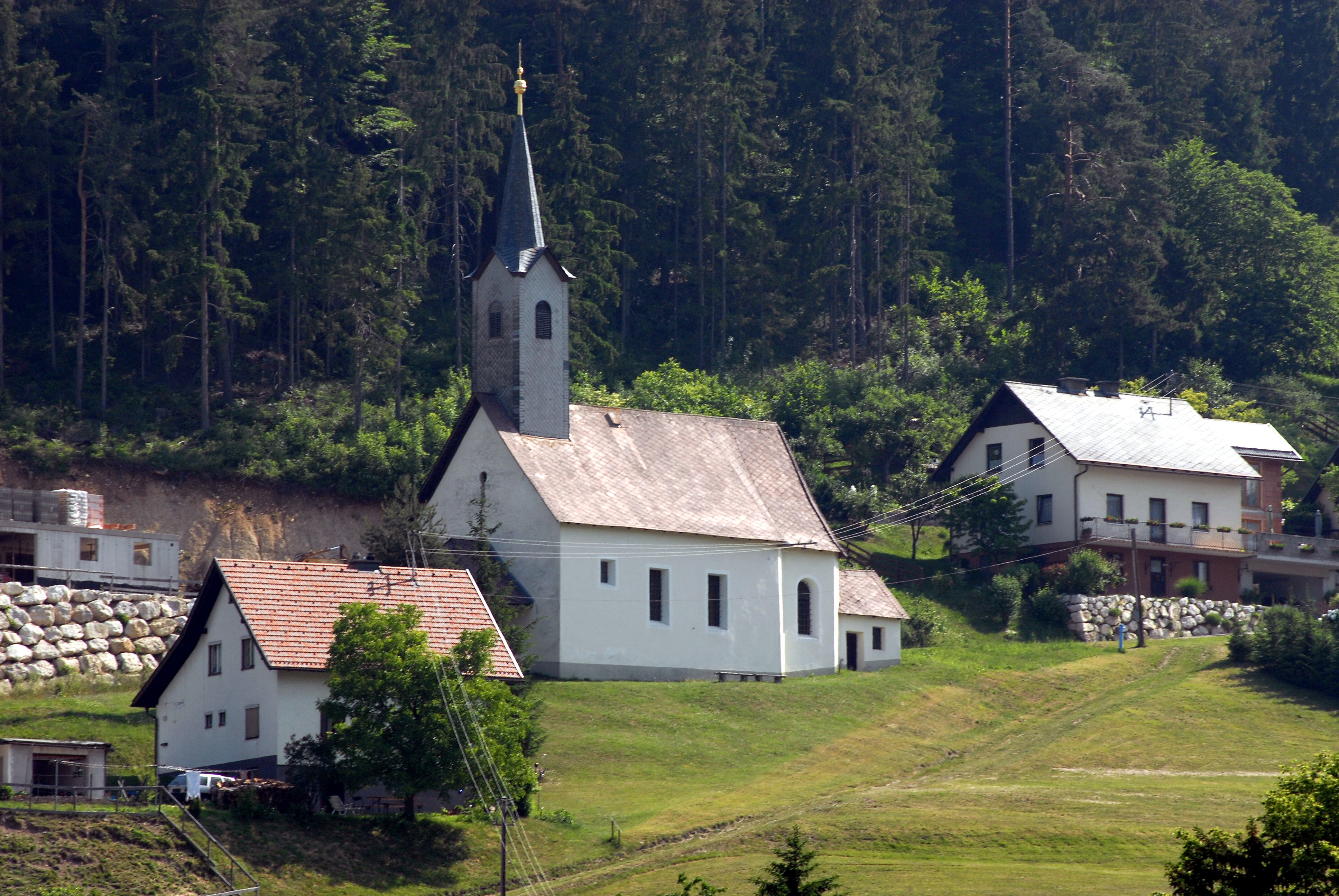 Subsidiary church Saint Thomas in Oberdörfl, municipality Sankt Margareten im Rosental, district Klagenfurt Land, Carinthia, Austria, EU